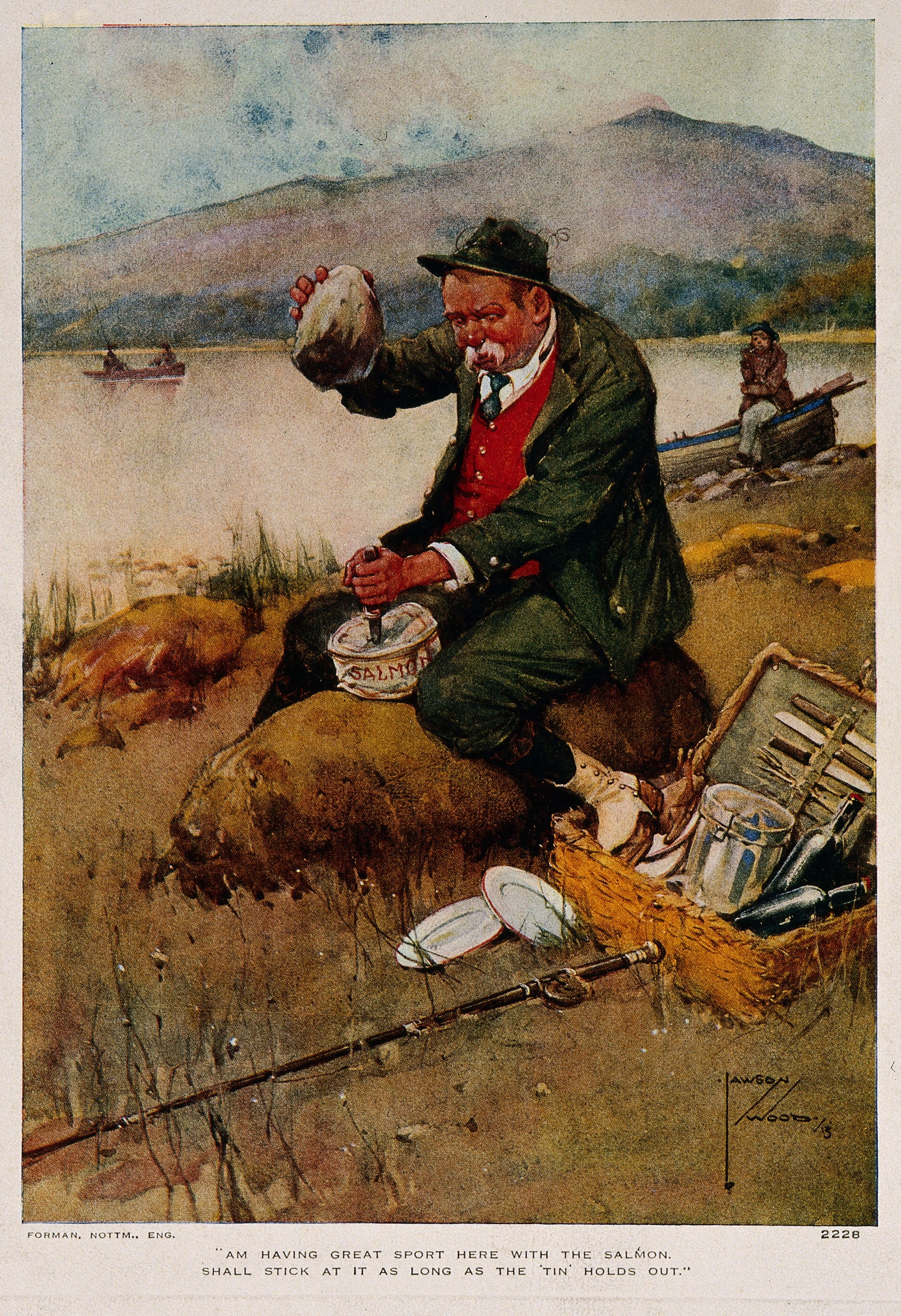 A man is sitting on a rock by the side of a lake with a fishing rod and picnic basket, trying to open a tin of salmon with a knife and a stone. Process print after Lawson Wood. Iconographic Collections